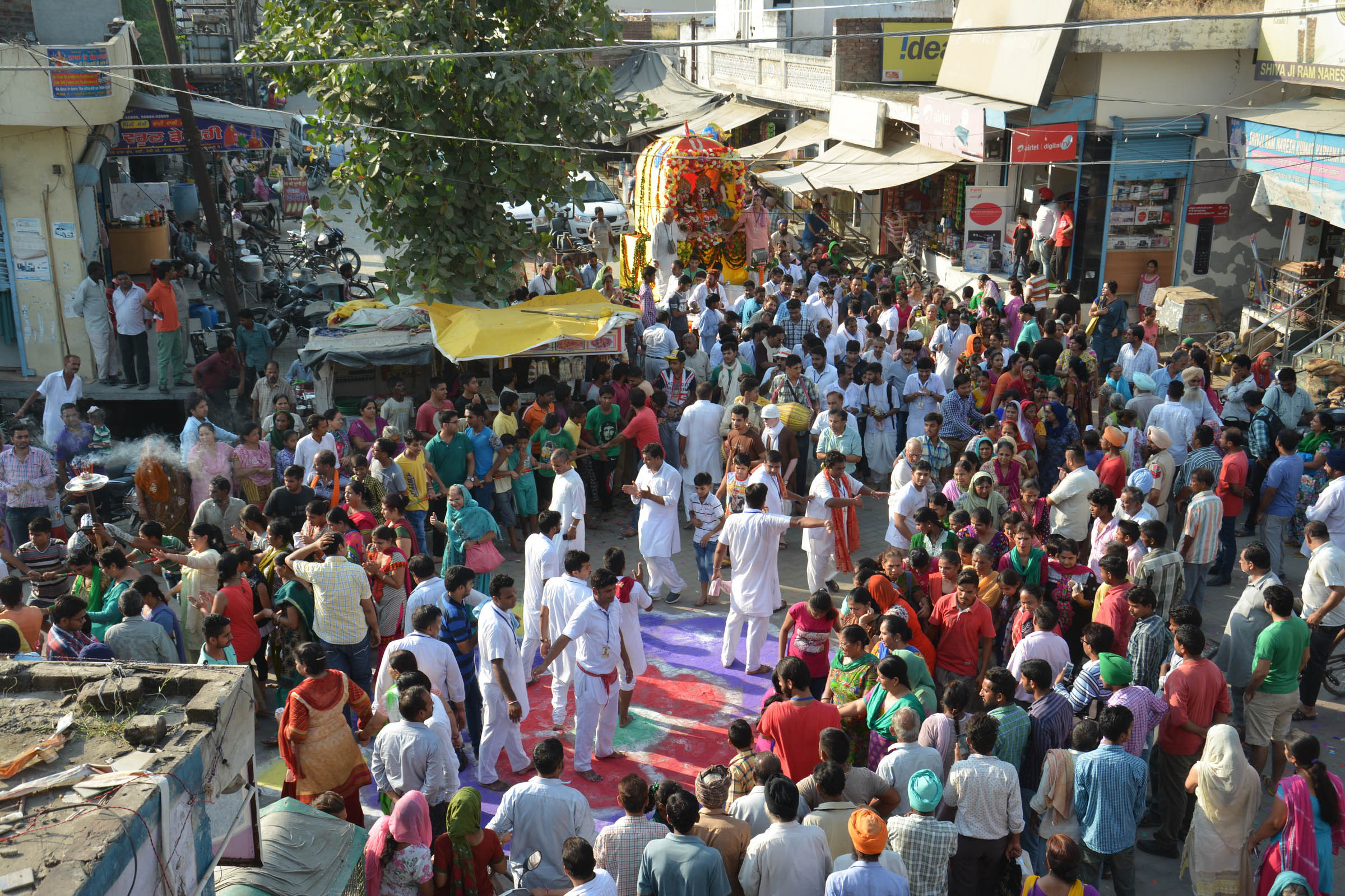 Second Jagannatha Ratha Yatra , Nabha By Committee Mandir Thakur Shri Saty Narayan Ji.